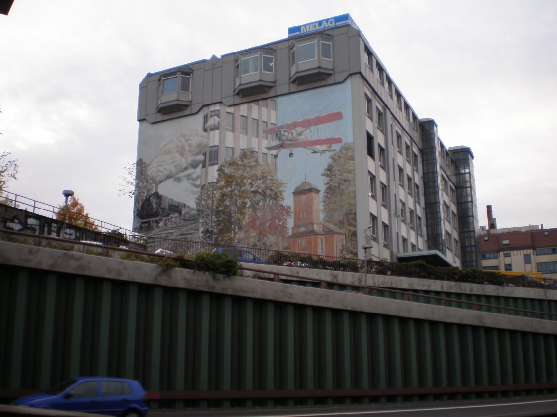 Wall painting by Gert Neuhaus in Berlin Tempelhof.